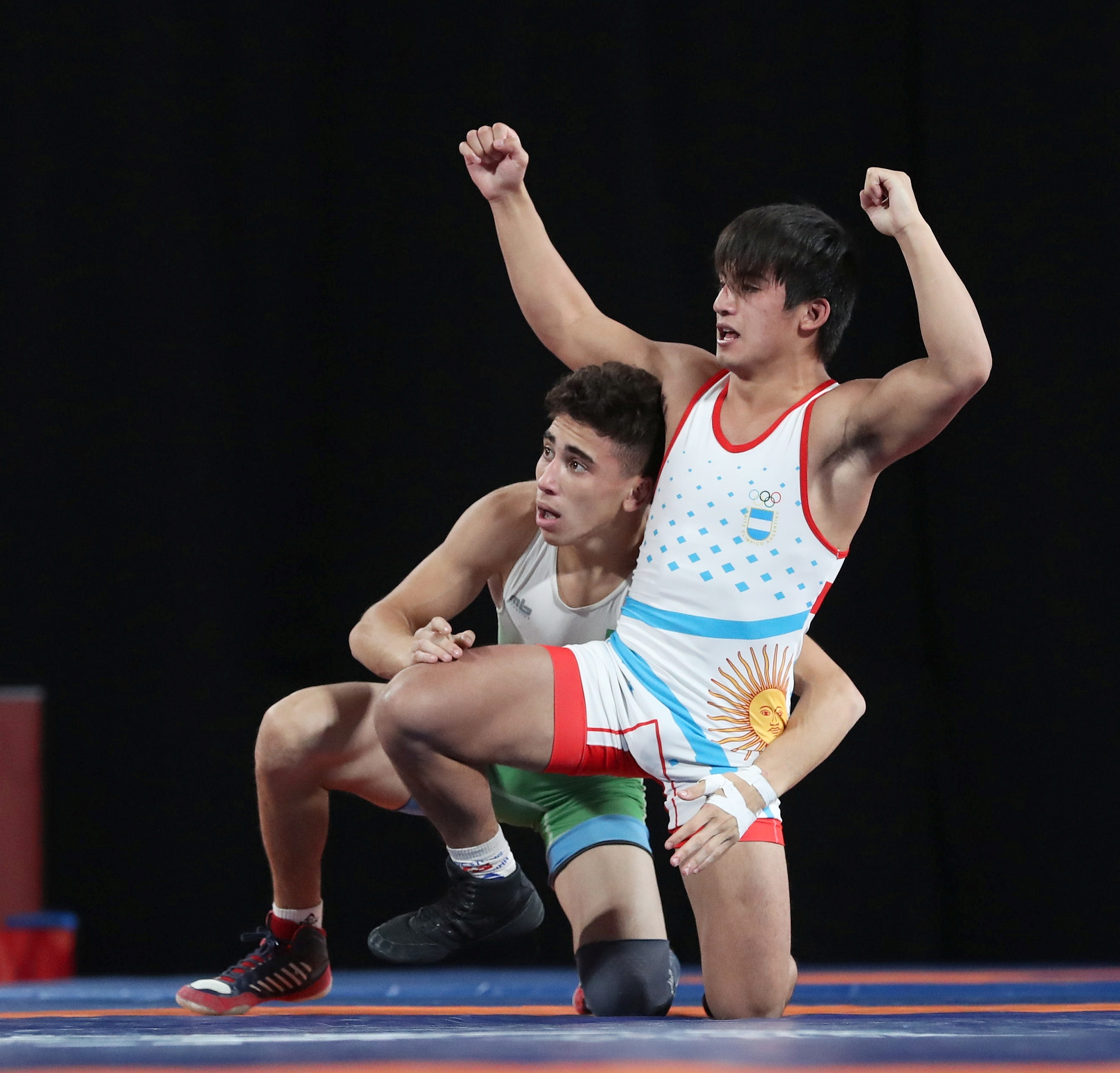 Wrestling group A match of the boys' freestyle 55 kg at the 2018 Summer Youth Olympics in Buenos Aires on 14 October 2018: Argentina vs. Algier.